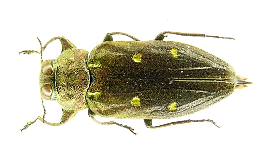 Male of Chrysobothris affinis